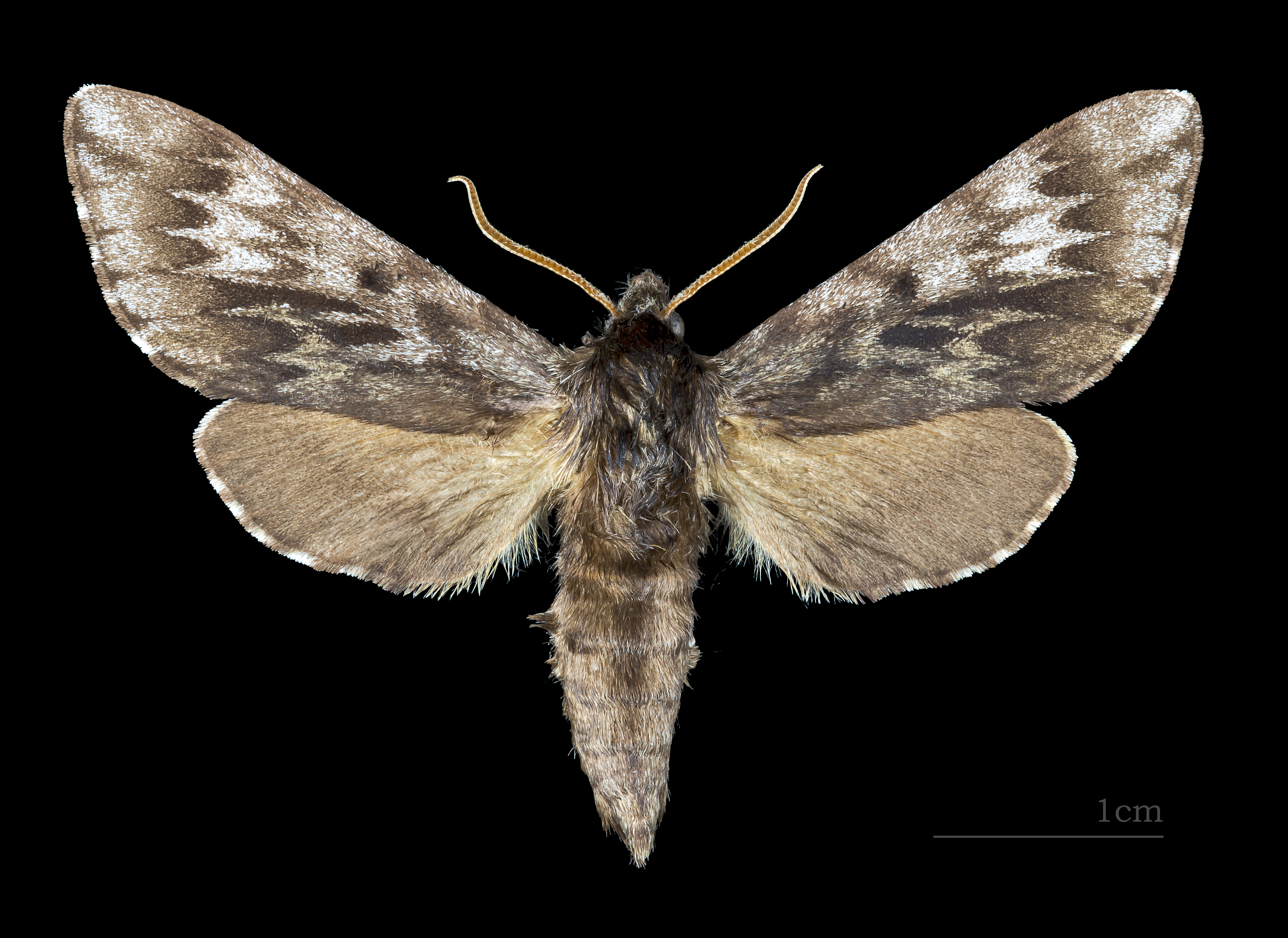 Northern Pine Sphinx - Dorsal side